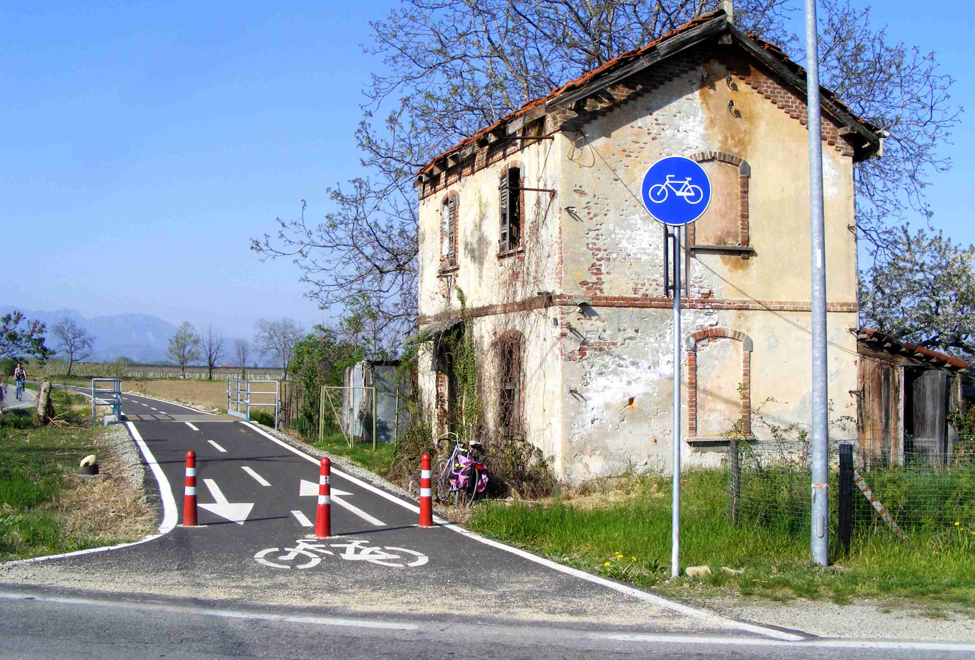 The cicling path realized on the former railway Bricherasio-Barge (foto taken in Campiglione-Fenile, TO, Italy)